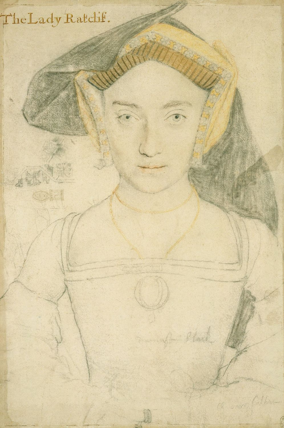 Portrait of Lady Ratcliffe, inscribed "The Lady Ratclif". Black and coloured chalks, pen and brush and Indian ink, metalpoint, on pink-primed paper, 30.1 × 20.3 cm, Royal Collection, Windsor Castle. Water stain on right. Rubbed and partly reinforced later. The sitter could have been a number of Lady Ratcliffes. Sir Robert Ratcliffe, Ist Earl of Sussex (1483–1542), had three wives, of which the third, Mary, is most possible. Art historian K. T. Parker tentatively favoured his son Henry's wife Lady Elizabeth Howard (d. c. 1536), daughter of Thomas Howard, 2nd Duke of Norfolk, and his second wife, Agnes Tilney, as the most plausible sitter, since Holbein drew other members of the Howard family. Reference K. T. Parker, The Drawings of Hans Holbein at Windsor Castle, Oxford: Phaidon, 1945, OCLC 822974, p. 41.